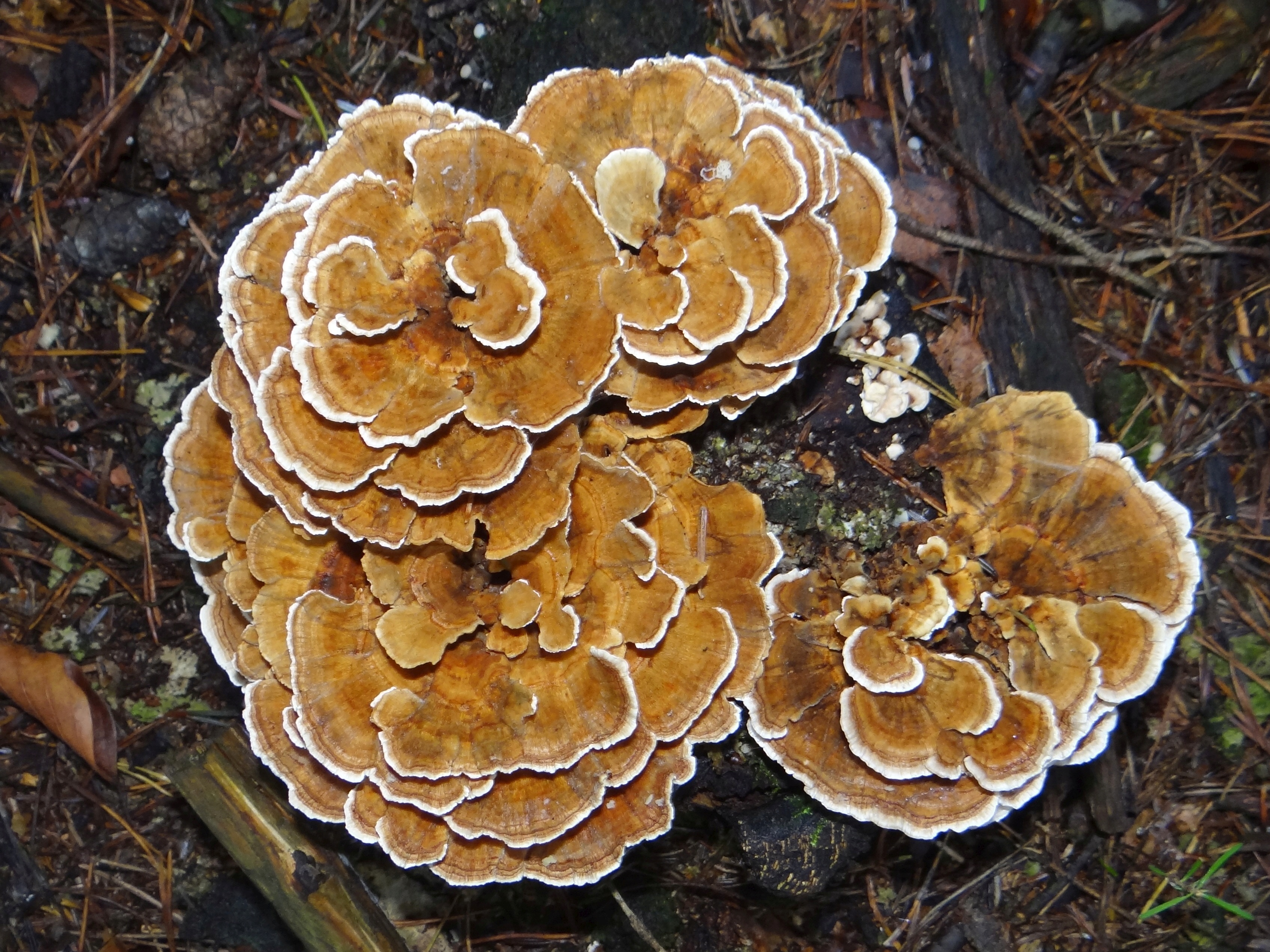 Trametes ochracea (location: Poland)